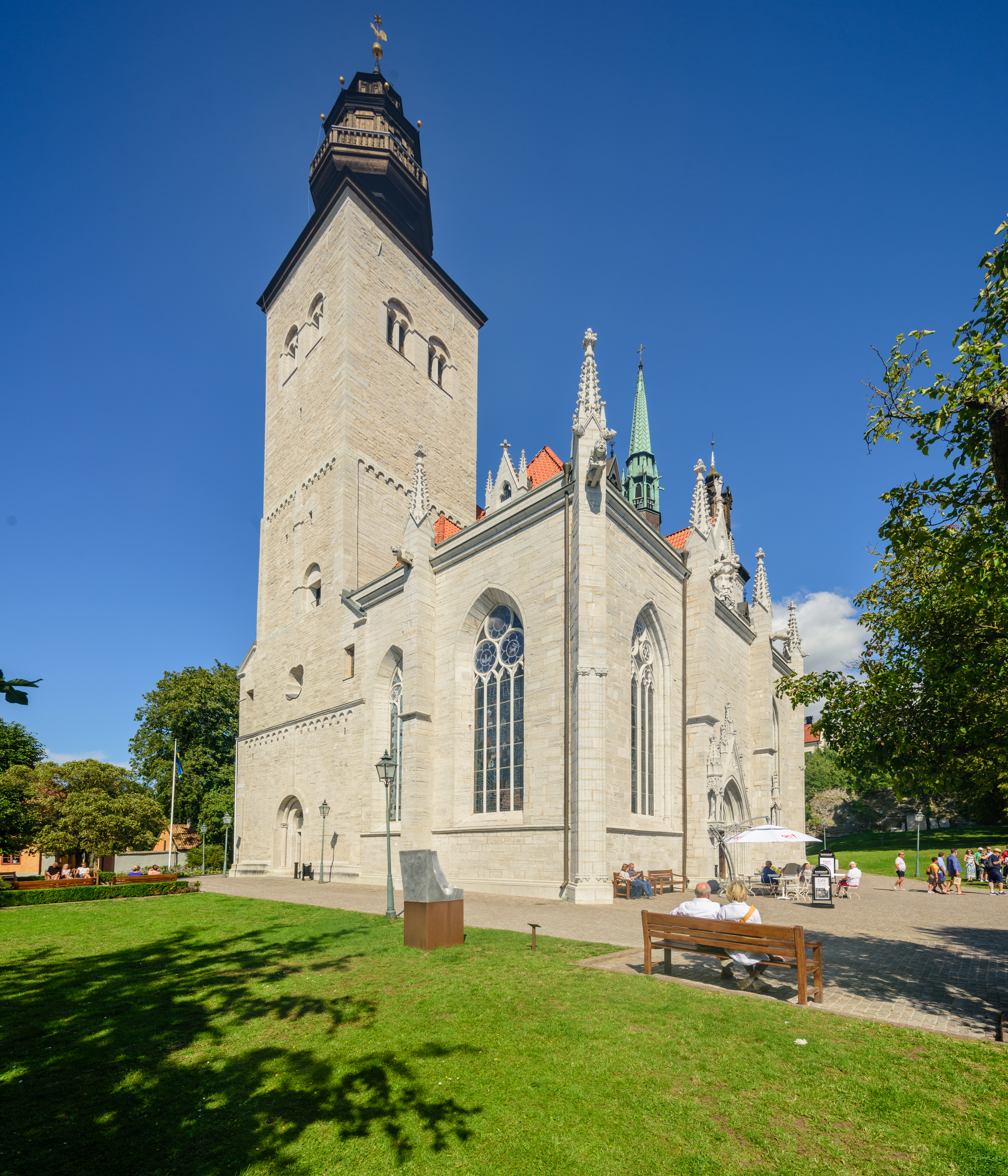 Visby Cathedral (Swedish: Visby domkyrka, officially Visby S:ta Maria domkyrka) is a cathedral in Visby in Sweden. Belonging to Visby Cathedral Parish of the Church of Sweden, it serves the Diocese of Visby, and was inaugurated on 27 July 1225.